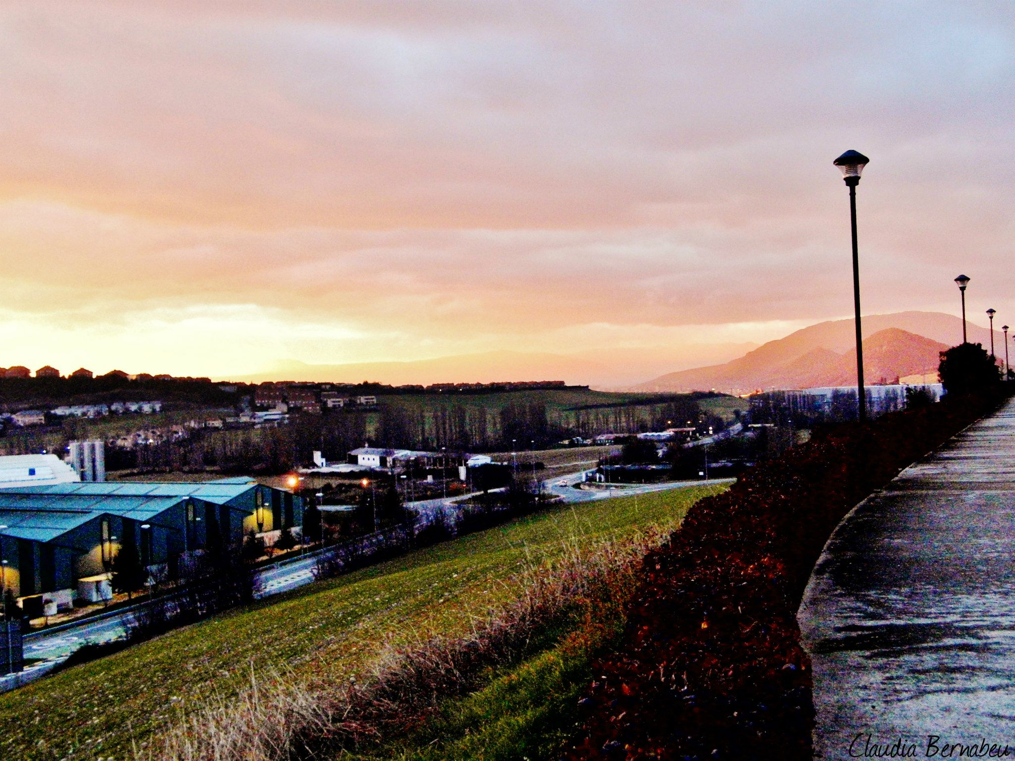 Twilight's photo taken from an urbanized road in Valle de Egüés, located next to Pamplona, Navarra, Spain.